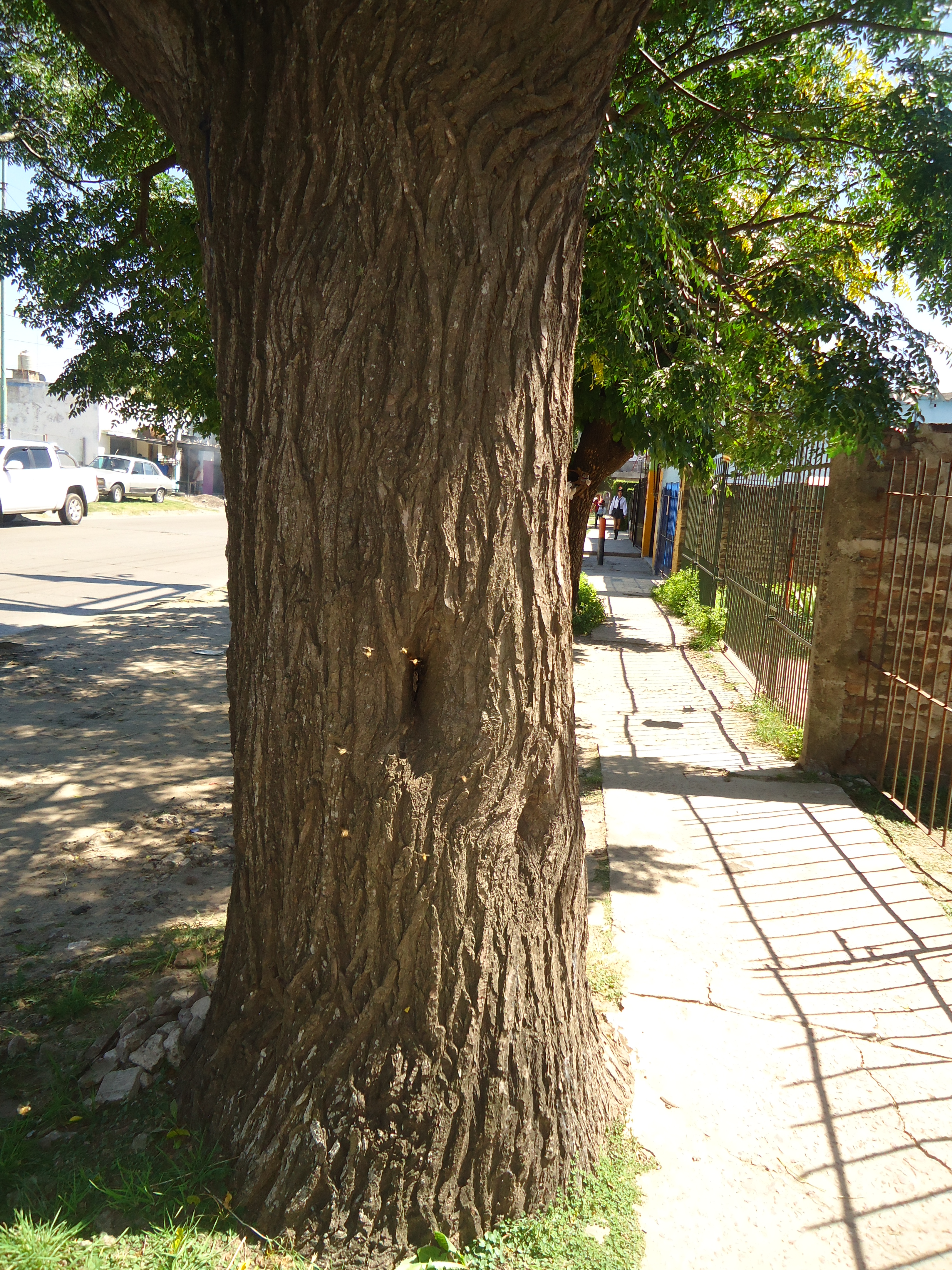 Wild nest of Apis mellifera ligustica in Estanislao Severo Zeballos, Buenos Aires Province, Argentina.